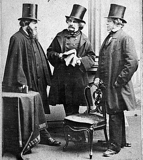 Portrait of James Thomas Fields (1817-1881), Nathaniel Hawthorne (1804-1864), and William Davis Ticknor (1810-1864).